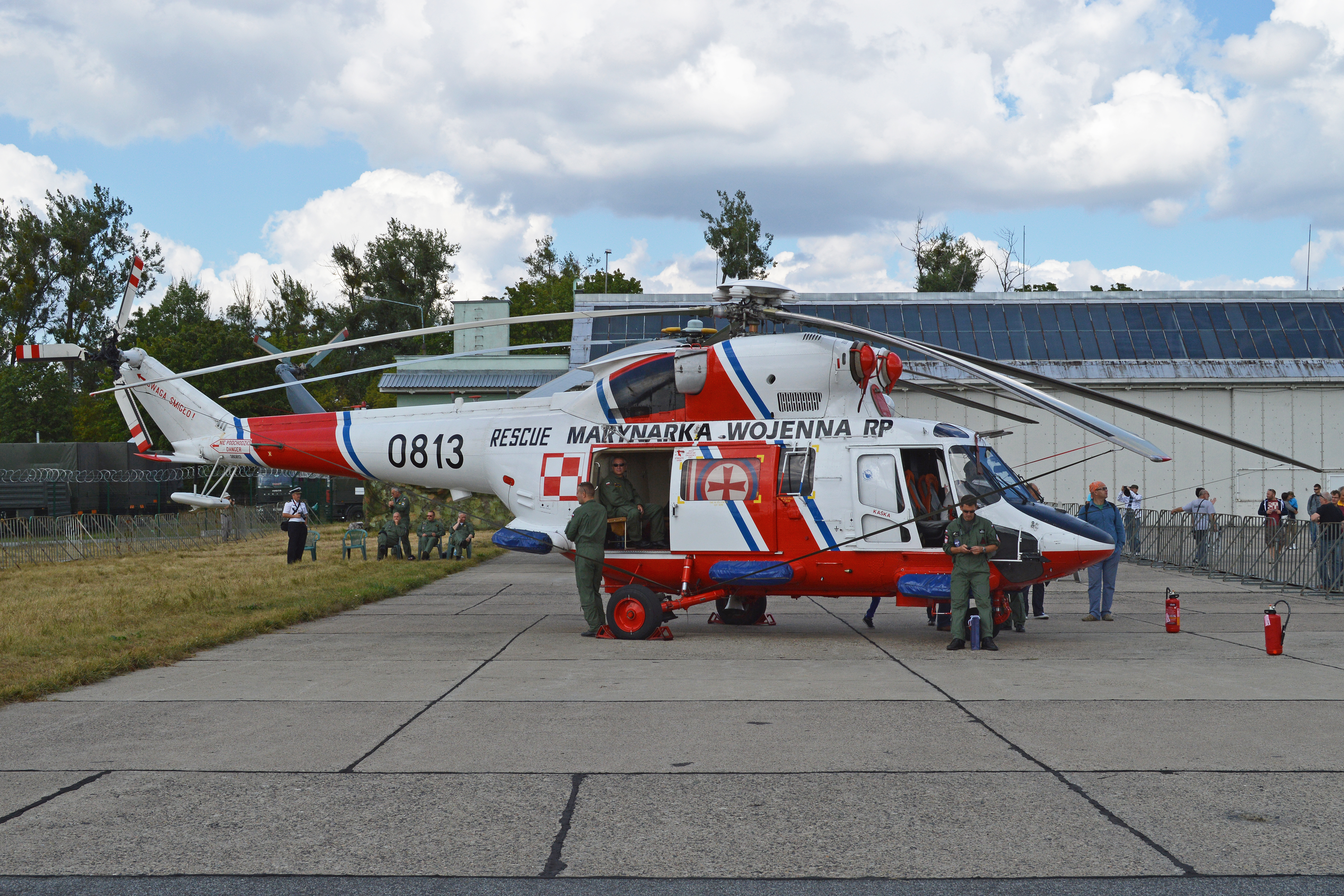 The W-3WARM is a navalised SAR variant. Eight have been produced and all are in Polish Navy service. c/n 360813. On static display at the 2013 Airshow at Radom Airbase, Poland. 24-8-2013